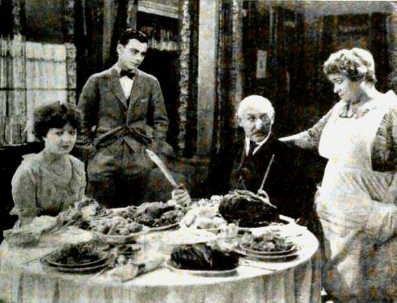 Still from the American drama film The Good Provider (1922) with Vivienne Osborne, William Collier, Jr., Vera Gordon, and Dore Davidson, on page 53 of the July 1922 Photoplay.